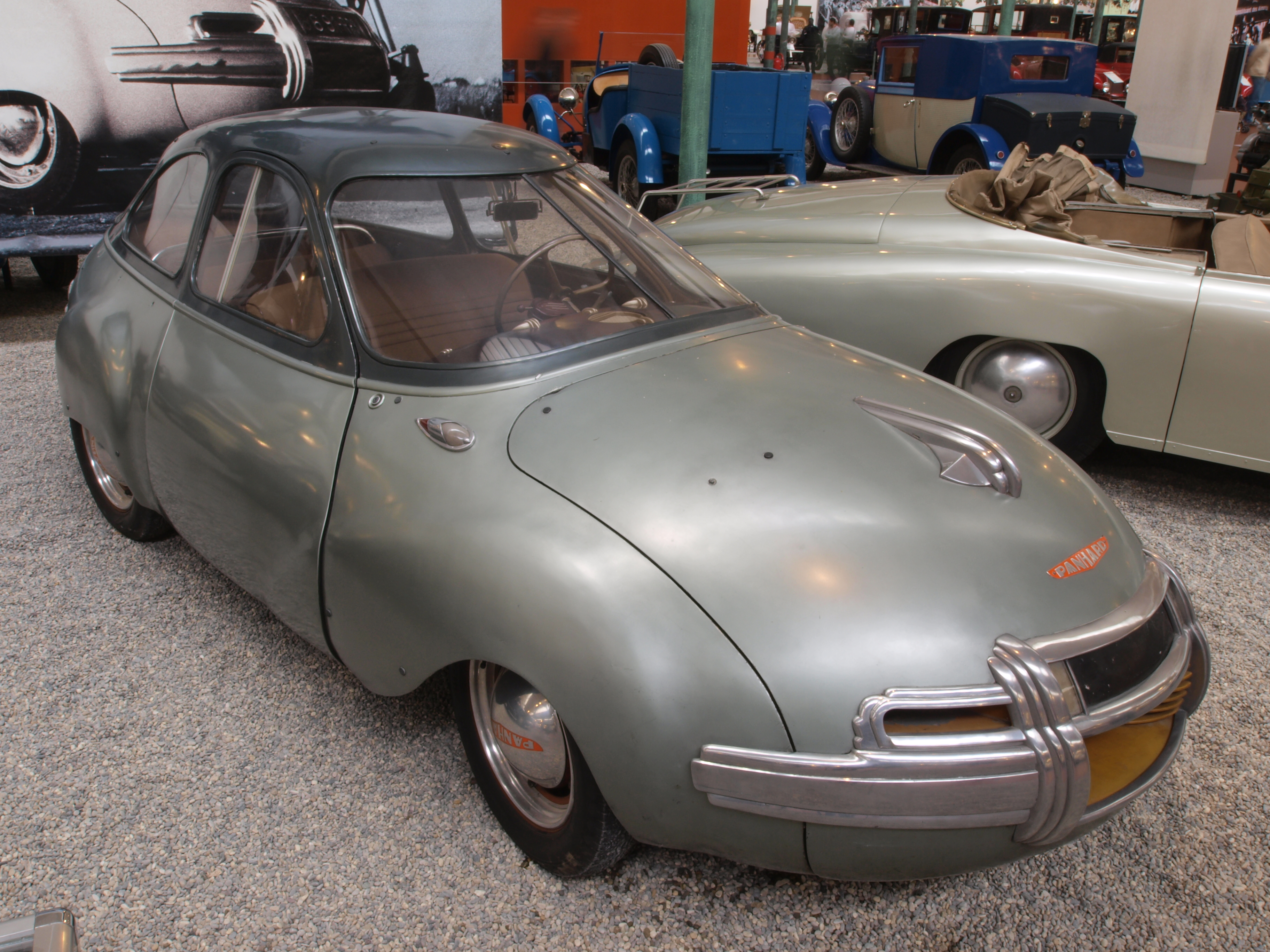 Photographed at the Cité de l’Automobile, France. OLYMPUS DIGITAL CAMERA